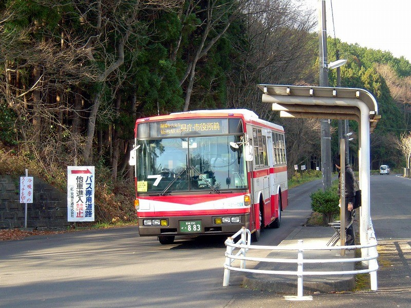 Miyagi kotsu Hatatate-west-park bus stop(Taihaku ward,Sendai,Miyagi,Japan)